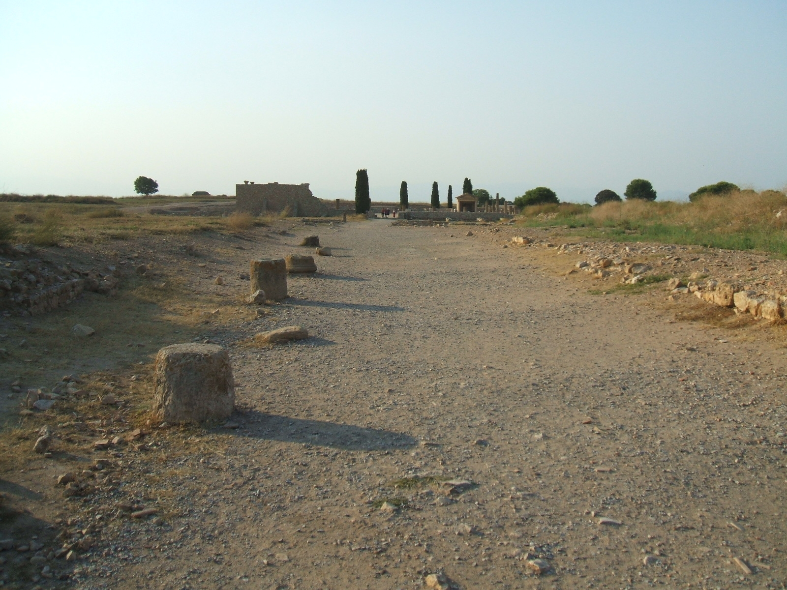 Empuries Archaeological Site (Catalunya, Spain) : Roman Town ; the Cardo Maximus (Main North-South Street) towards the Forum.